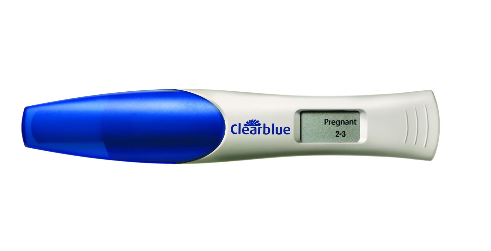 Clearblue Advanced Digital Pregnancy Test with Weeks Estimator